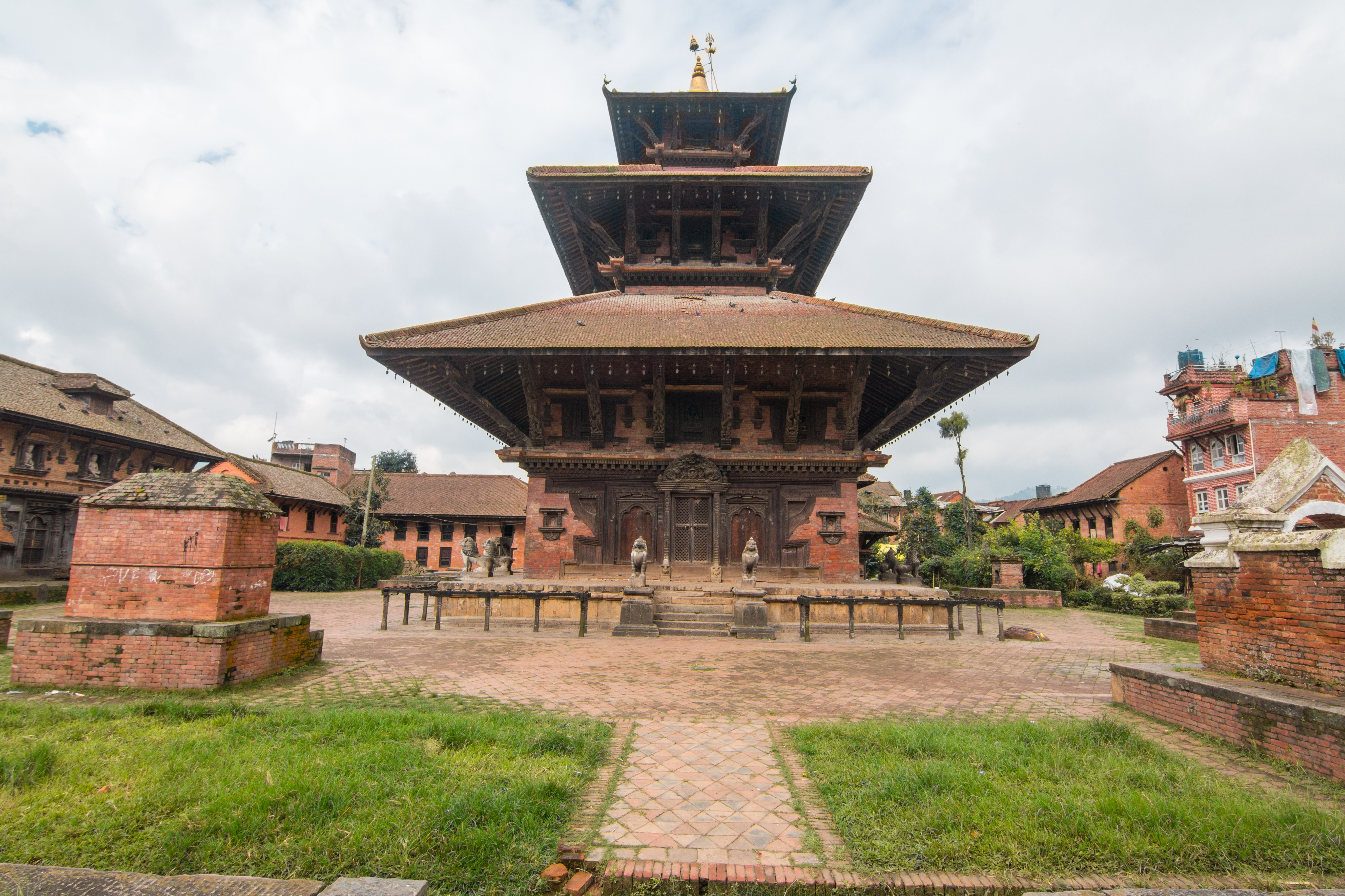 Temples in Nepal Mahdev temple, Shachi Tirtha Tribenighat, Panauti, Kavrepalanchok districk नेपाली: काभ्रे जिल्ला पनाैतीमा अवस्थित सचि तिर्थ त्रिवेणिघाटमा रहेकाे उन्नमत्त भैरव मन्दिर इन्दे्श्वर महादेव मन्दिरबाट खिचीएकाे ढाेका भःयालमा कुदिएका कलाकृति